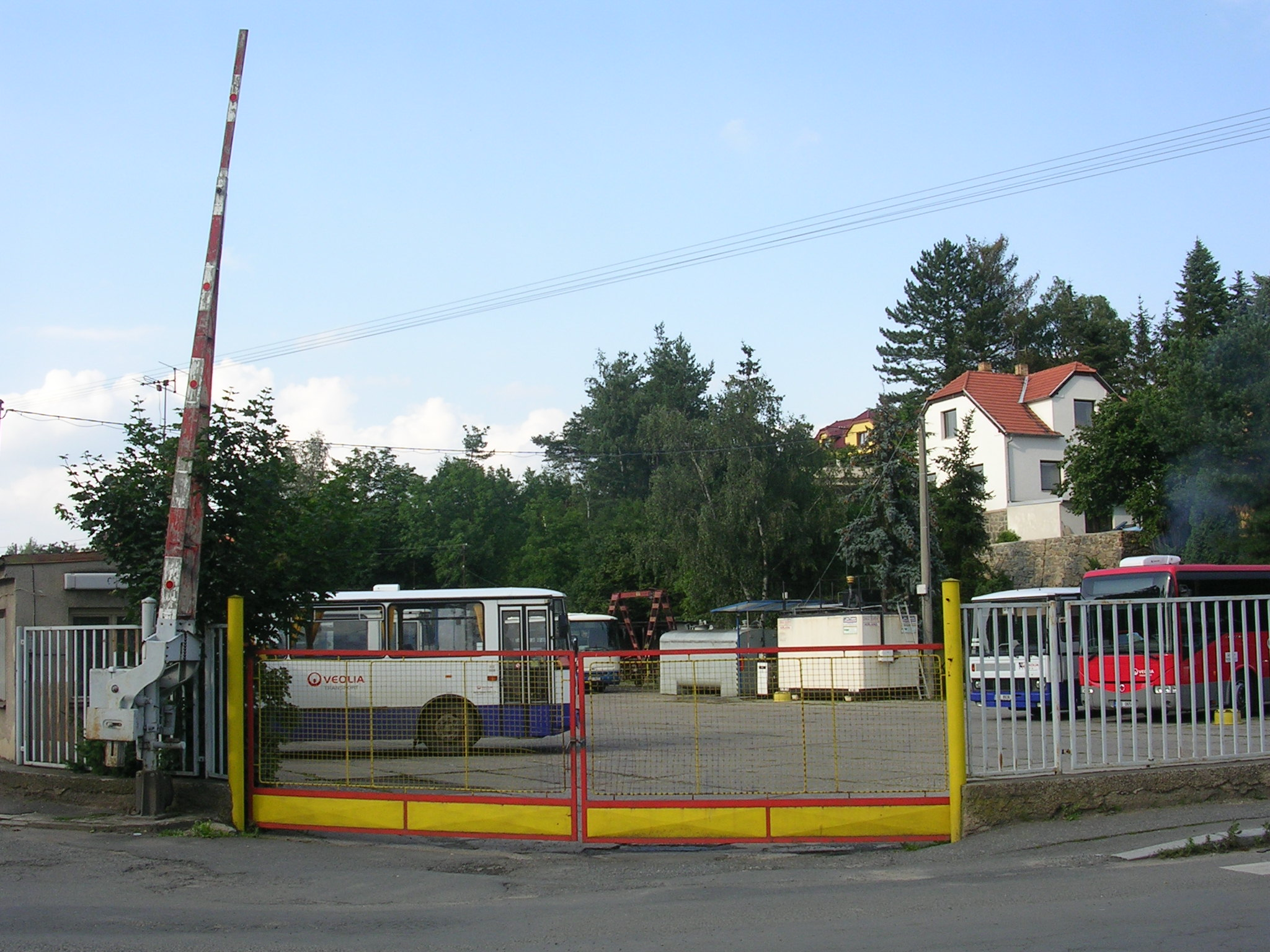 Sedlčany, Příbram District, Central Bohemian Region, the Czech Republic. Sedlčany plant of Veolia Transport Praha.